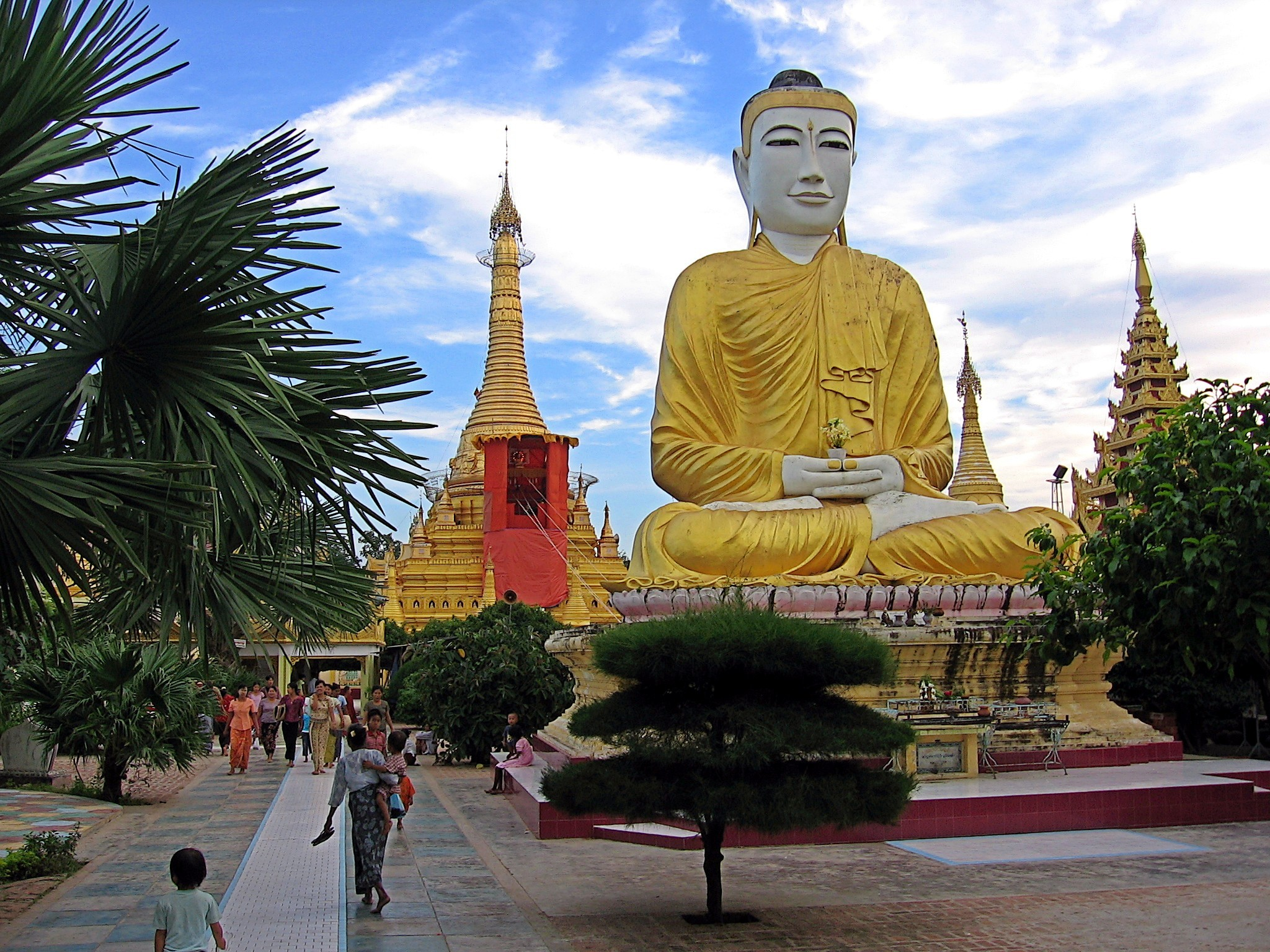 Shwezigon Paya in Monywa, Myanmar.